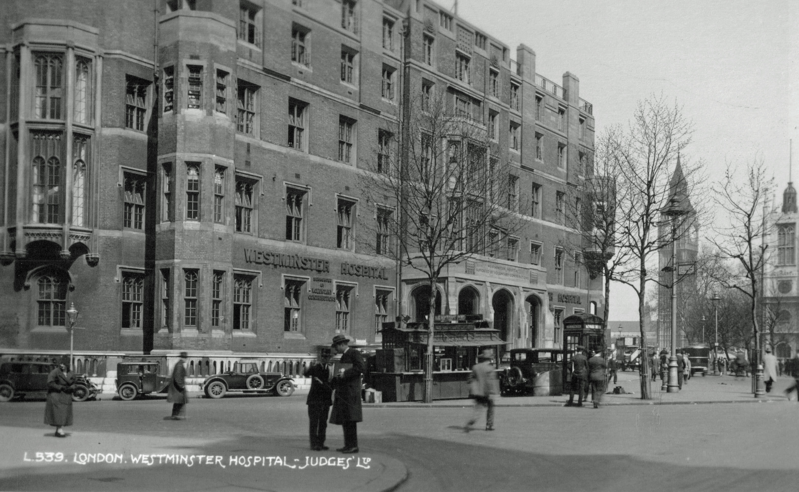 Another Judges' postcard, this time from the mid 1920s showing the front of Westminster Hospital in Broad Sanctuary. The Hospital was demolished in the early 1950s after a new hospital was built in Horseferry Road, the site was used as a car park for decades although the tea stall remained for some time after demolition. It is now the site of the Queen Elizabeth II conference centre.